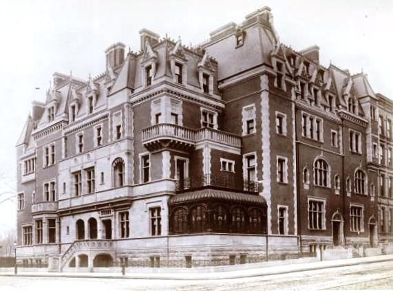 Home of Henry G. Marquand (1819-1902), New York City. Richard Morris Hunt, architect. Renaissance-revival Home built 1884 at northwest corner of Madison Avenue and 68th Street. Now demolished.